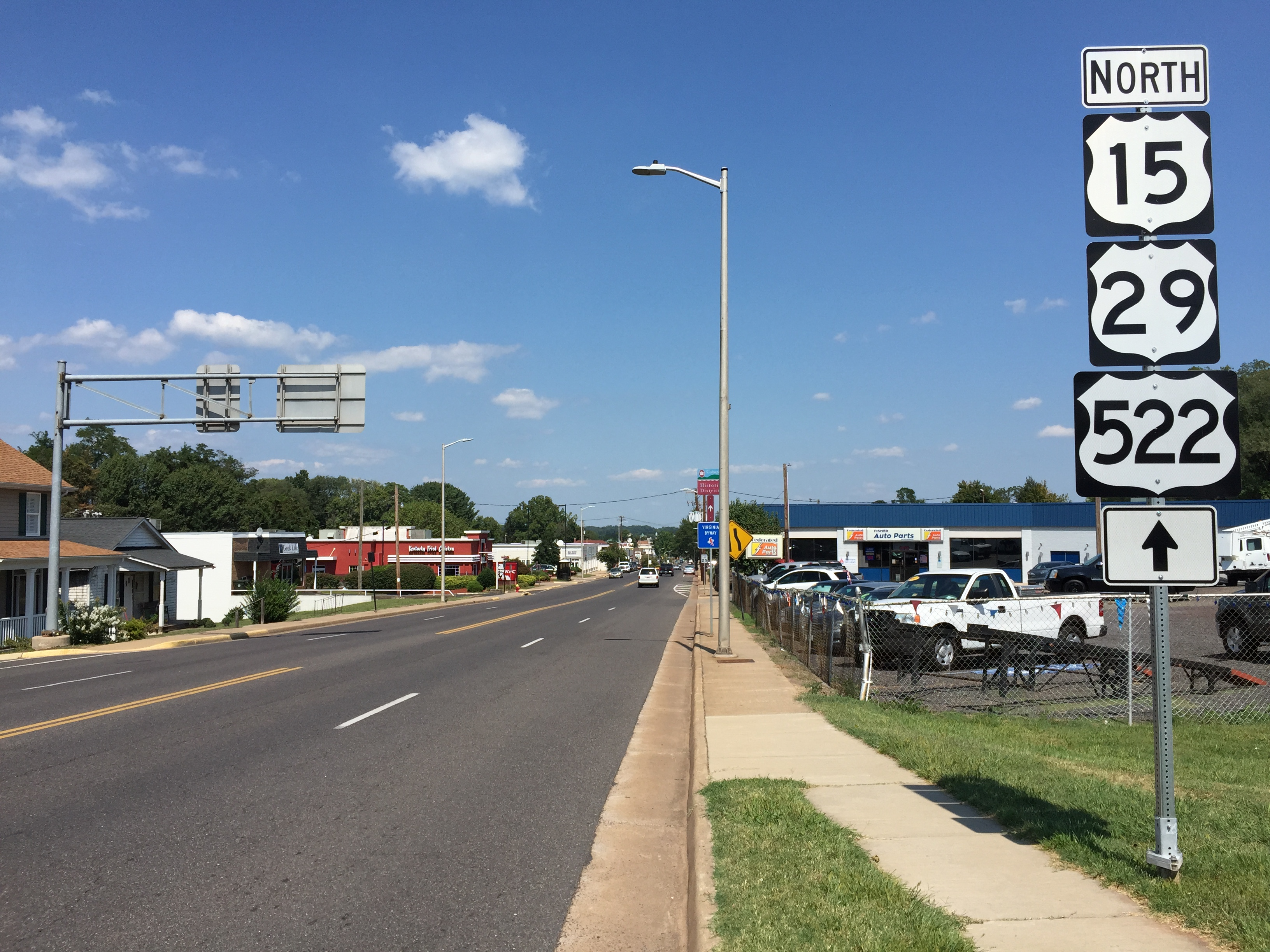 View north along U.S. Route 15 Business, U.S. Route 29 Business and U.S. Route 522 (Main Street) at Page Street in Culpeper, Culpeper County, Virginia